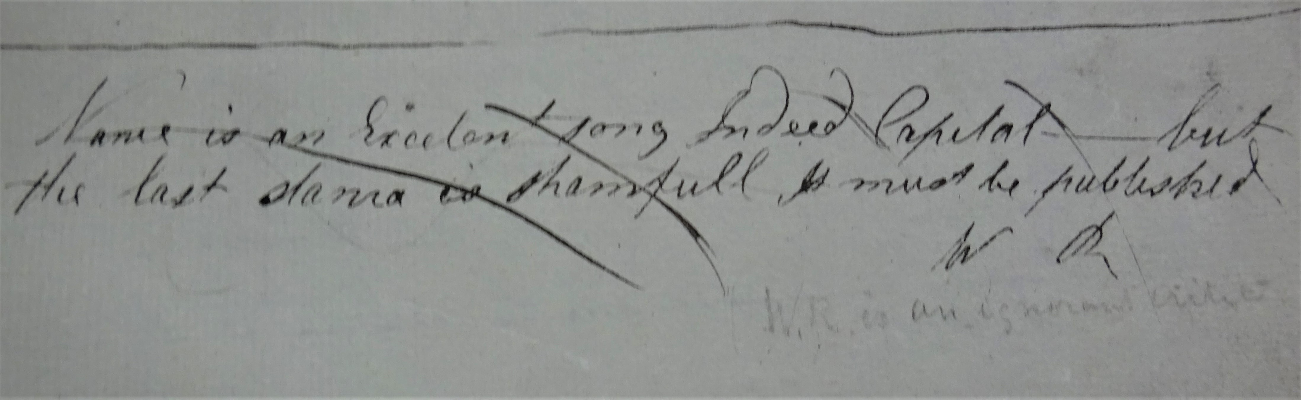 Scott Douglas's 'ignorant critic' comment, Robert Burns's Commonplace Book 1783 - 1785. Page13. 'W.R' had called part of a song 'shameful'.